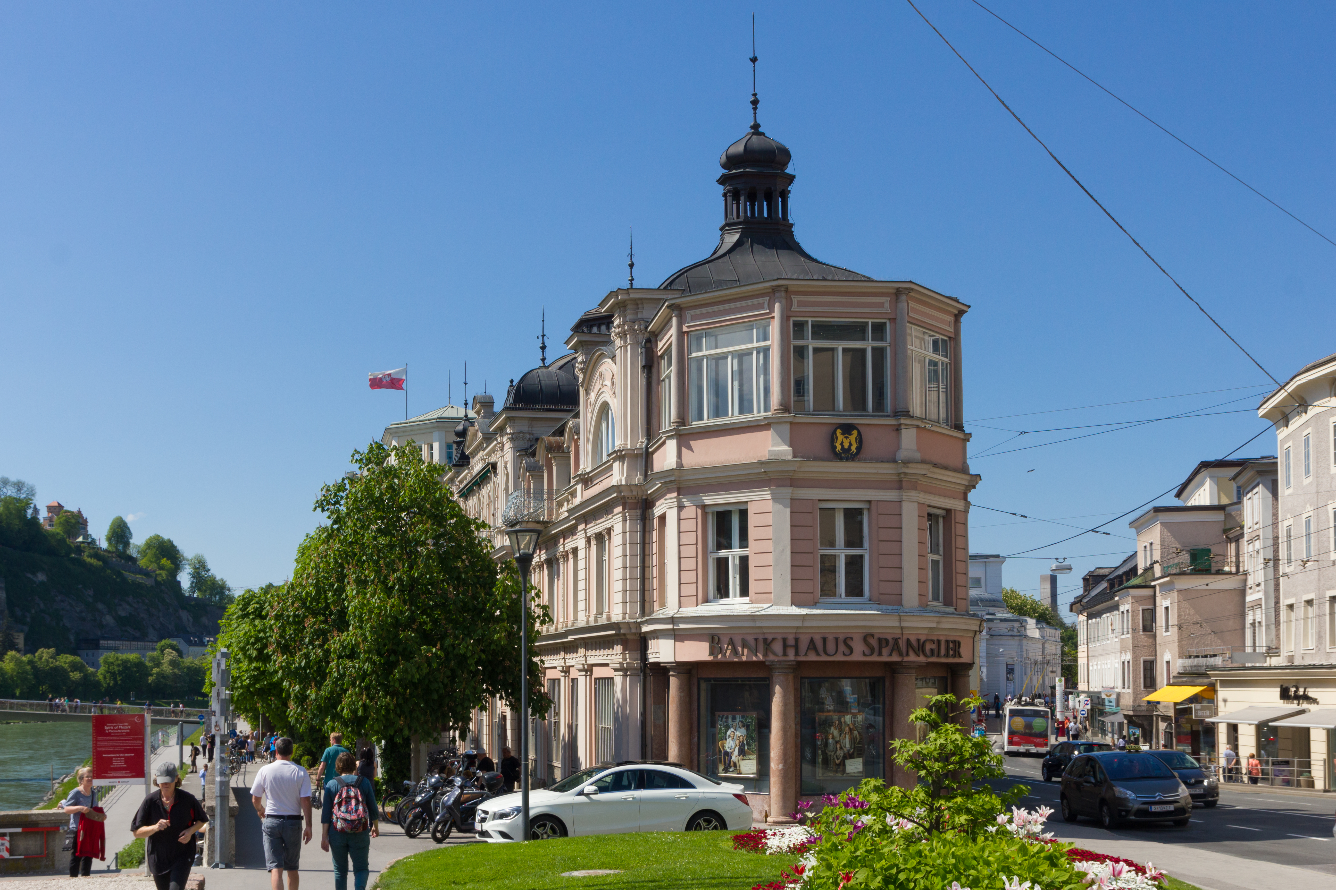 The building Schwarzstraße 1 in Salzburg